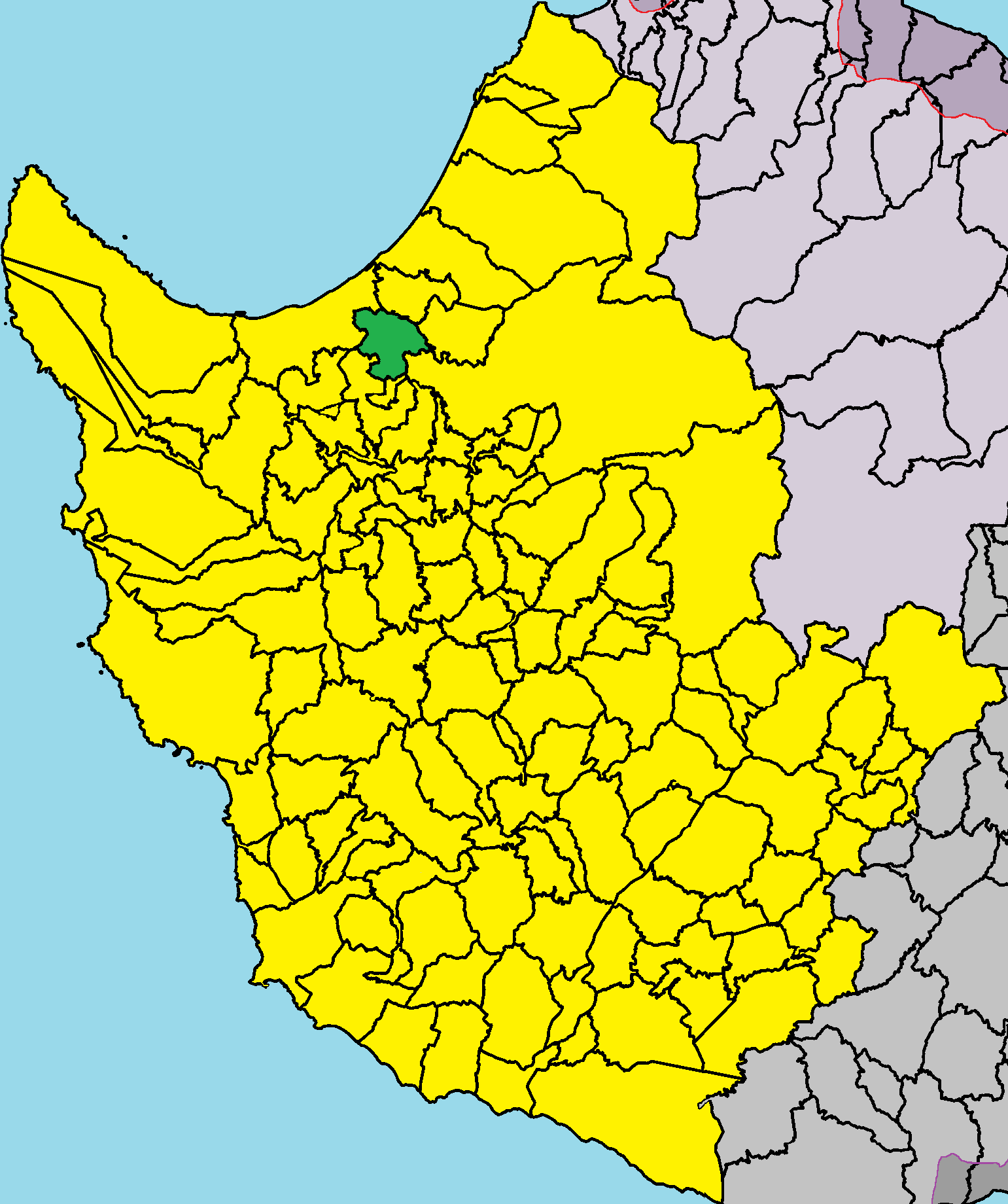 Pelathousa in Paphos District.